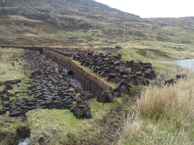 Peat cuttings near Unasary. The road along the southern side of Loch Eynort ends at Unasary. Similar peat cuttings are a frequent roadside sight in South Uist.